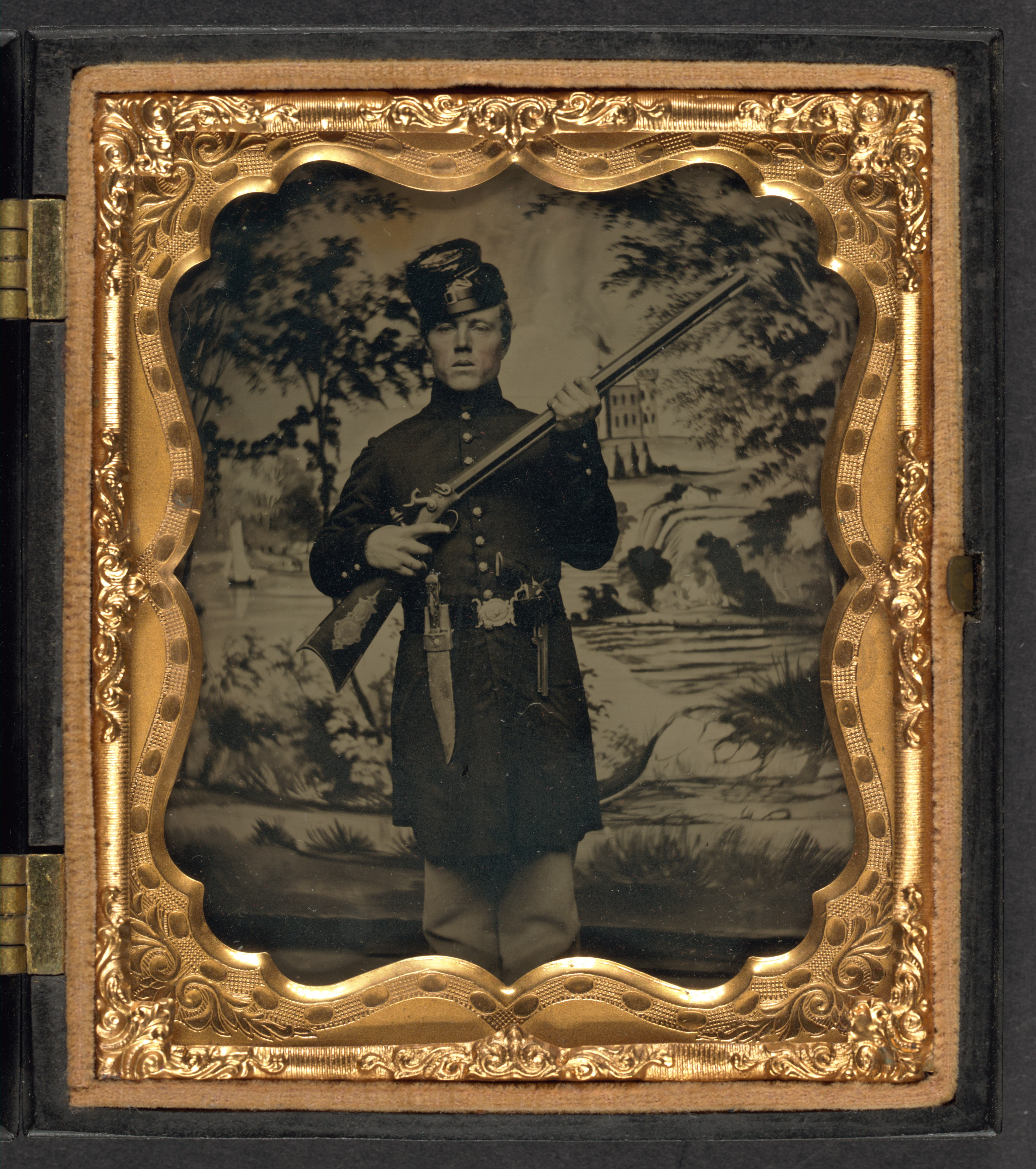 Title: Unidentified soldier of the 2nd United States Sharpshooters in Union uniform with target rifle, bowie knife, and Colt '49 pocket revolver in front of painted backdrop showing landscape with lake and fort Abstract/medium: 1 photograph : sixth-plate ambrotype, hand-colored ; 9.5 x 8.3 cm (case)